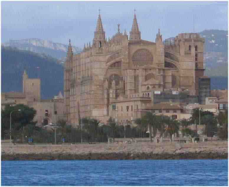 Catedral de Mallorca (Palma, 2005). This work is licensed under a Creative Commons Attribution-ShareAlike 2.5 License .